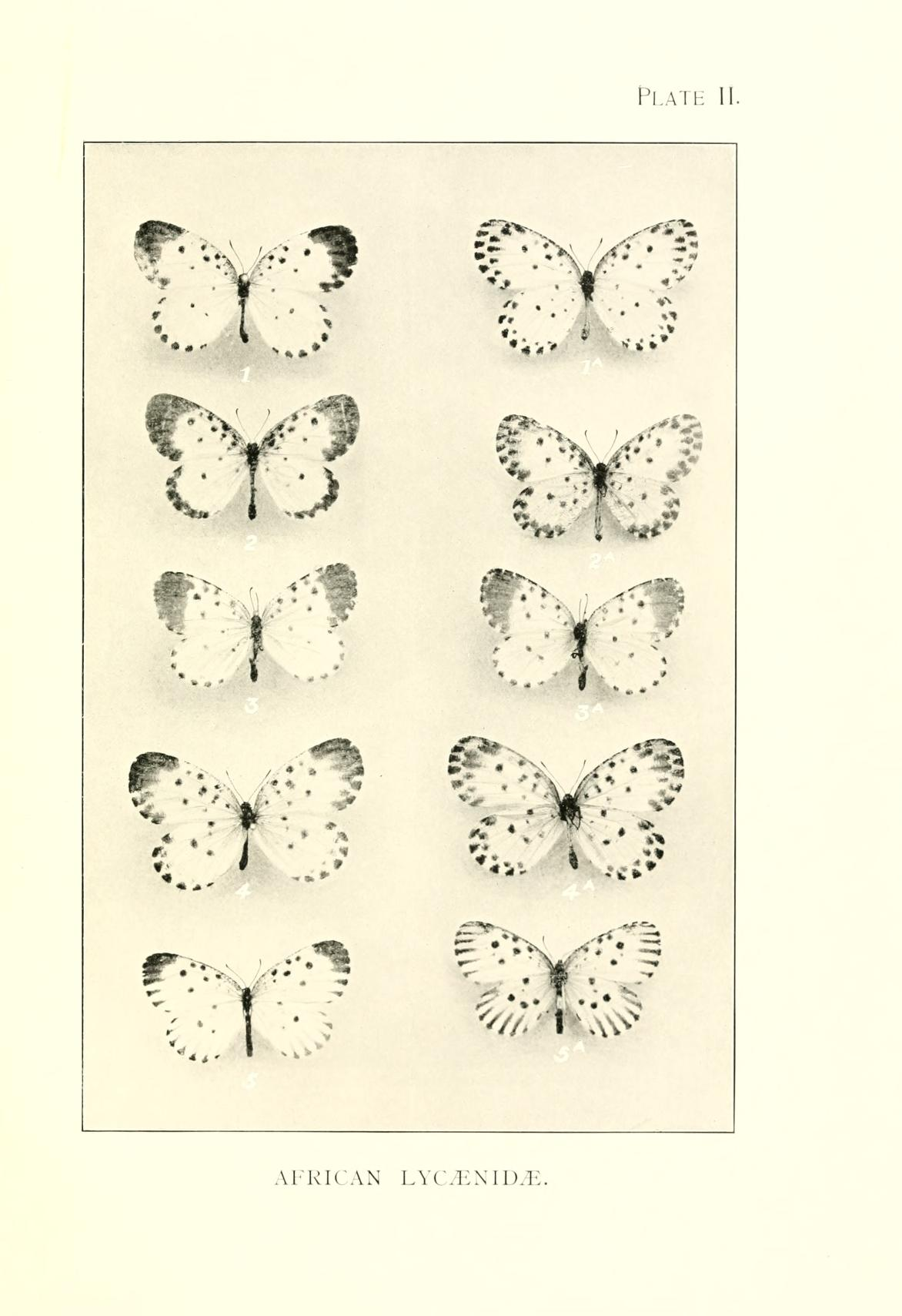 Druce Illustrations of African Lycaenidae Plate 2 Genus Pentila Westwood, [1851] PENTILA HEDWIGA. fig 1, 1a.Suffert. Iris xvii, p. 43, 1904. Cameroons.This = P. metadata Kirby Anns. Mag. Nat. Hist. ser. 5, v. 19, p. 363 (1887) which Professor Aurivilius considers to be a variety of P. abraxas. D. & H. PENTILA CHRISTINA. fig 2, 2a. Suffert. Iris xvii, p. 45, 1904. Cameroons. PENTILA ELFRIEDA. f. 3, 3a.Suffert. Iris xvii, p. 46, 1904. Mukenge, Central Africa.Does not differ from Pentila cloetensi Auriv. Ent. Tidskr. 18, p. 214, f. 3 (1897) and must be sunk as a synonym. We possess a large series of this insect from the Congo, and I find considerable variation as to the size of the black apical patch on the fore-wing. PENTILA YAUNDA. f. 4, 4a. Karsch. Ent. Nachr. 21, p. 292 (1895). Cameroons.This again is nothing but P. maculata Kirby = P. abraxas. D. & H. PENTILA AUGA. f. 5, 5a. Karsch Ent. Nachr, p. 293 (1895). Cameroons.Mr. G. L. Bates captured a series of this insect at Bitje, Ja River,Cameroons, but in the wet season o